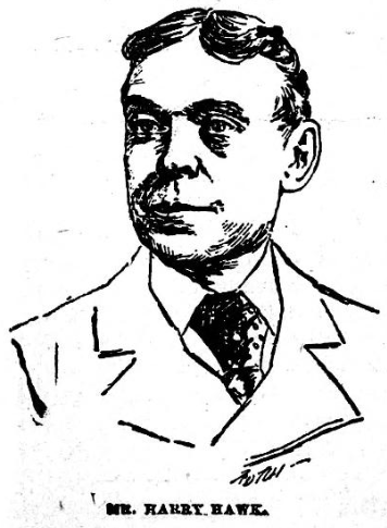 Drawing of American actor Henry Hawk, the only actor onstage at Ford's Theatre when U.S. President Abraham Lincoln was shot in 1865, appearing in newspaper in 1894